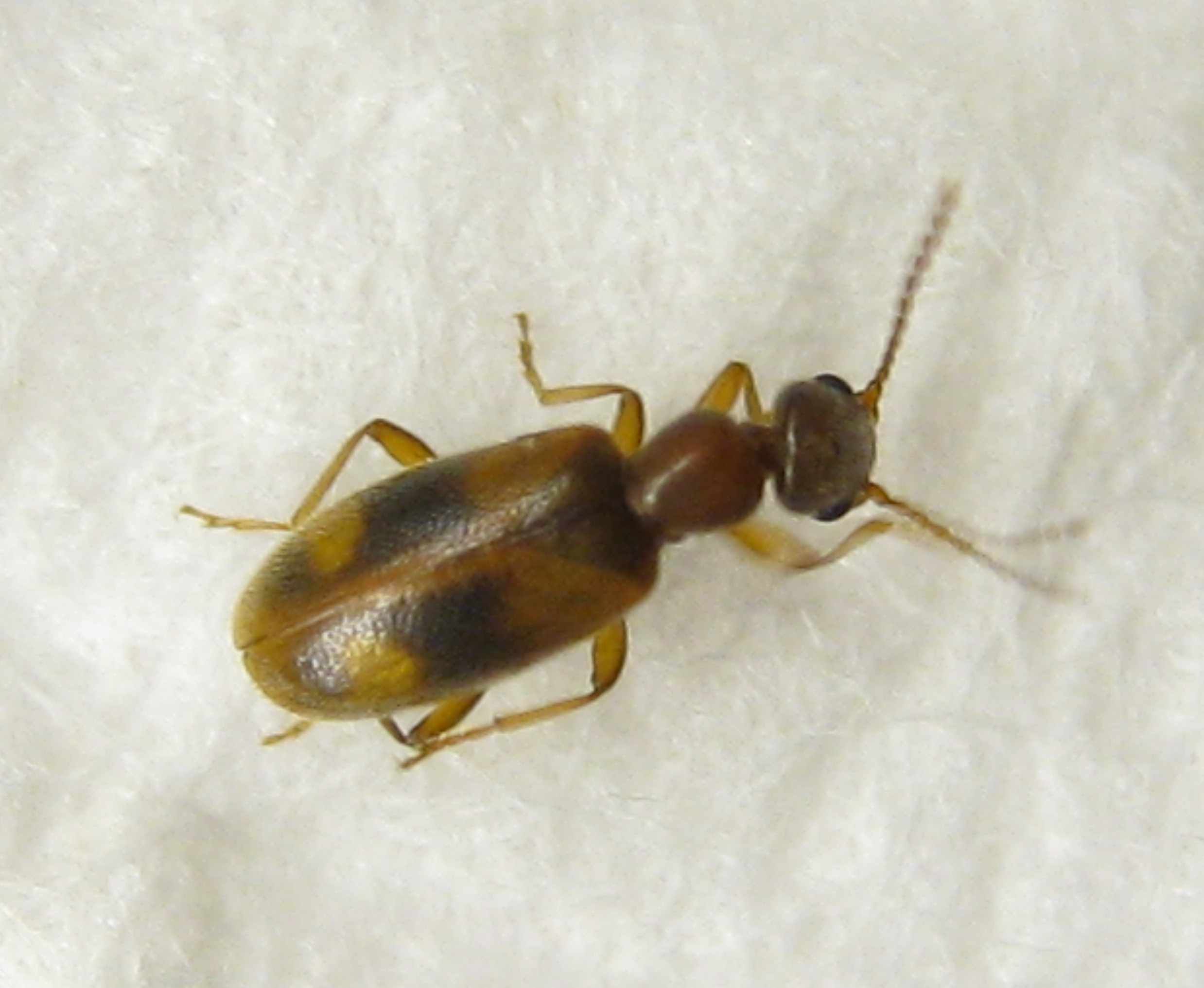 Anthicidae (Antlike Flower Beetle), Anthicus cervinus. Willow Grove, Montgomery County, Pennsylvania, USA.